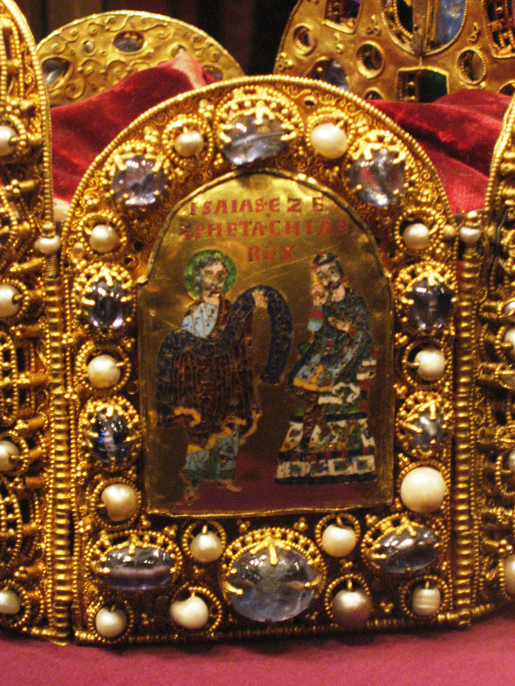 Hezekiah with the prophet Isaiah. The Imperial Crown Western Germany 2nd half of the 10th century The cross is an addition from the early 11th century; the arch dates from the reign of Emperor Conrad II (ruled 1024-1039); the red velvet cap is from the 18th century. Gold, cloisonné enamel, precious stones, pearls Brow plate: H 14.9 cm, W 11.2 cm; cross: H 9.9 cm SK Inv. No. XIII 1